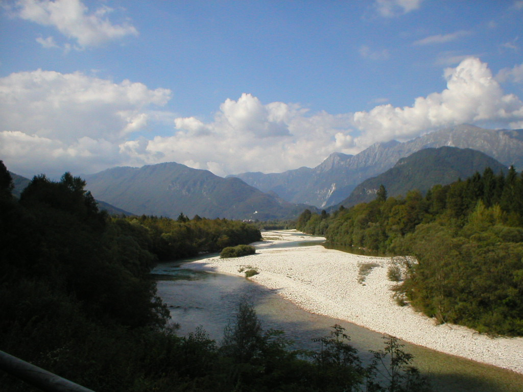 Isonzos river valley